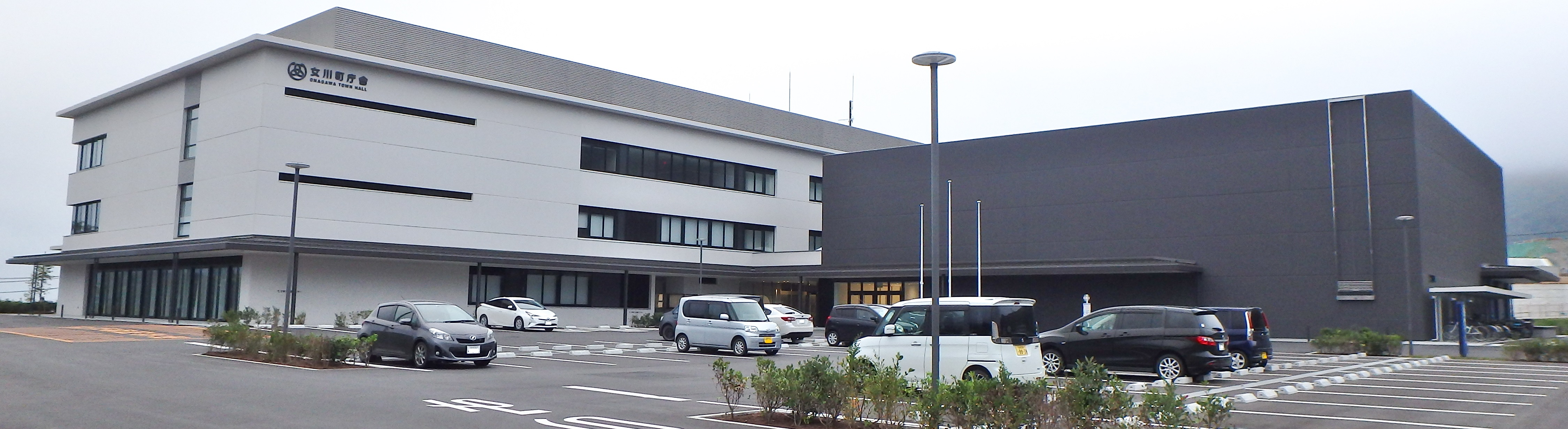 Onagawa town hall, Miyagi prefecture,Japan